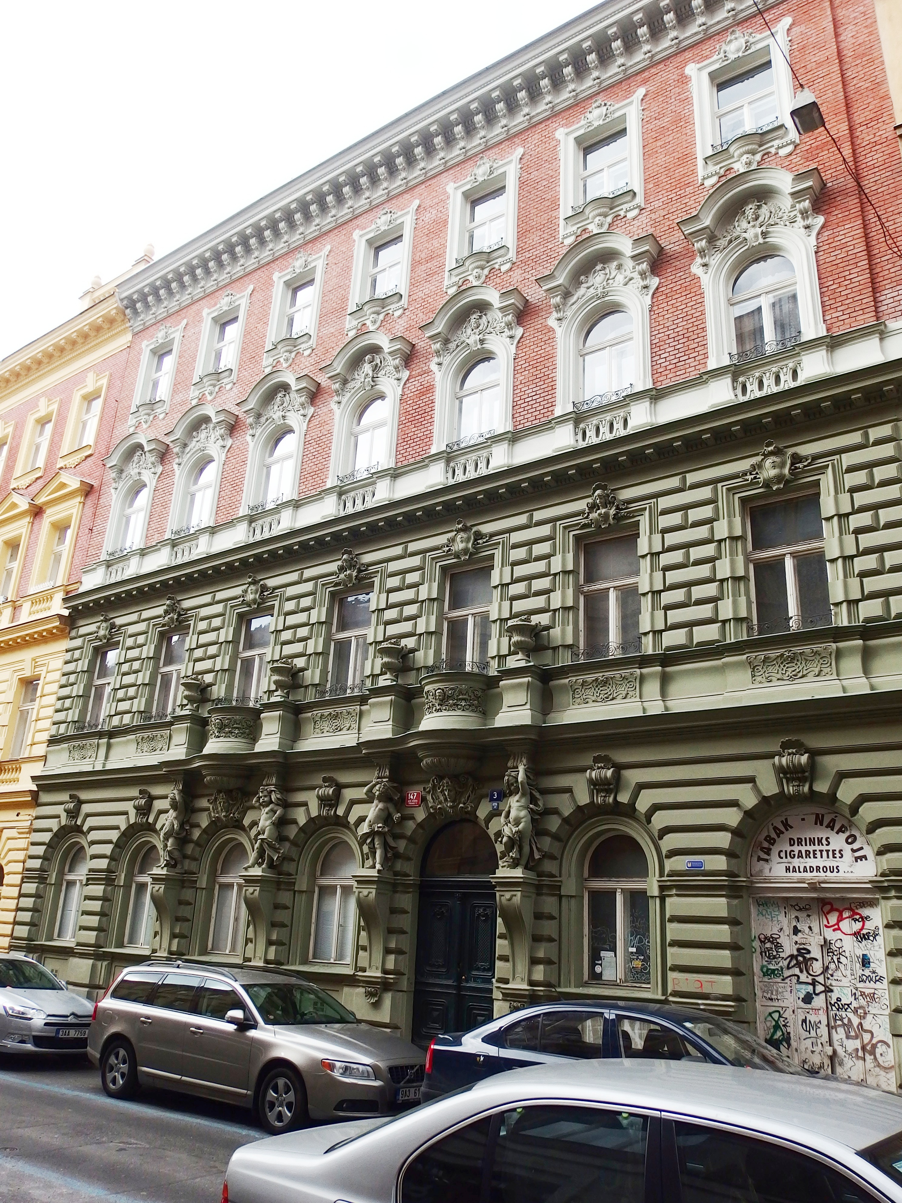 Prague, V Jirchářích street.